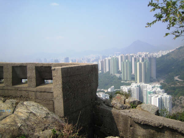 The ruin of old fortress on Devil's Peak in Kowloon, Hong Kong.